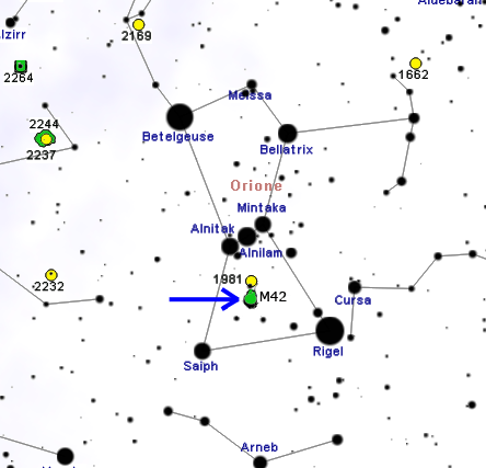 Orion nebula map